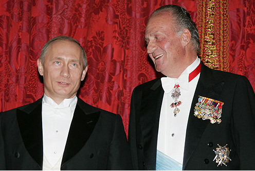 The President of Russia Vladimir Putin with the King of Spain Juan Carlos I. in Madrid, Palacio de Oriente.